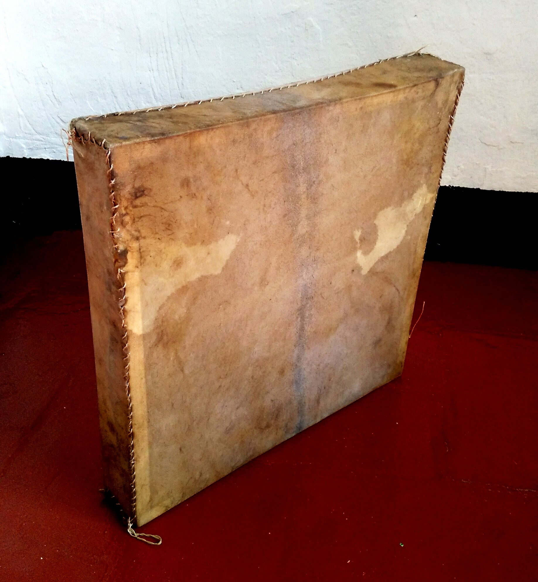 Catalan "Pandero quadrat" made of pine frame and goat skin.